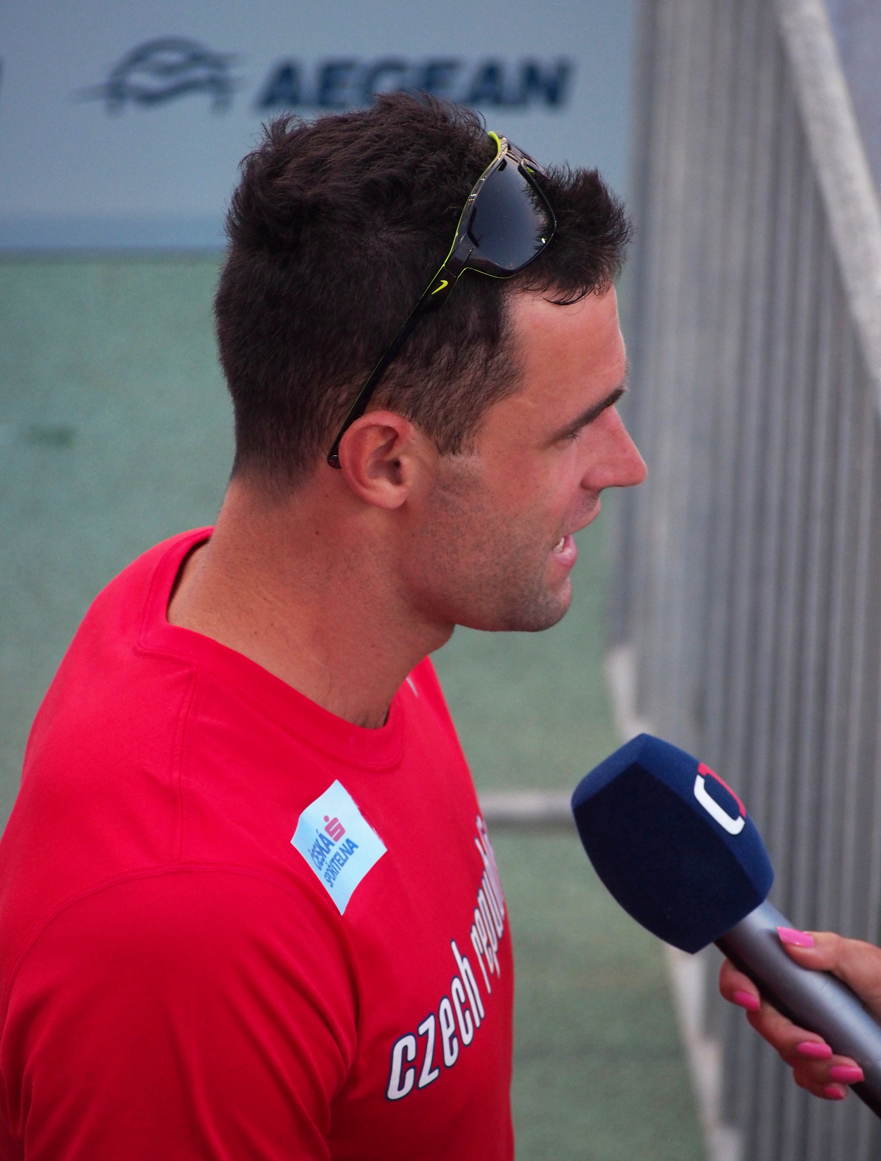 Jan Kudlička, Czech pole vaulter, giving an interview after the final of men's pole vault during 2015 European Team Championships First League. He was second with a with a jump of 5.75 metres.